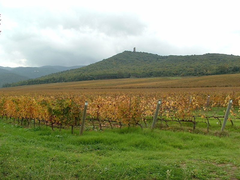 Donoratico Tower (Castagneto Carducci), picture from Giuseppe Cassanmagnago